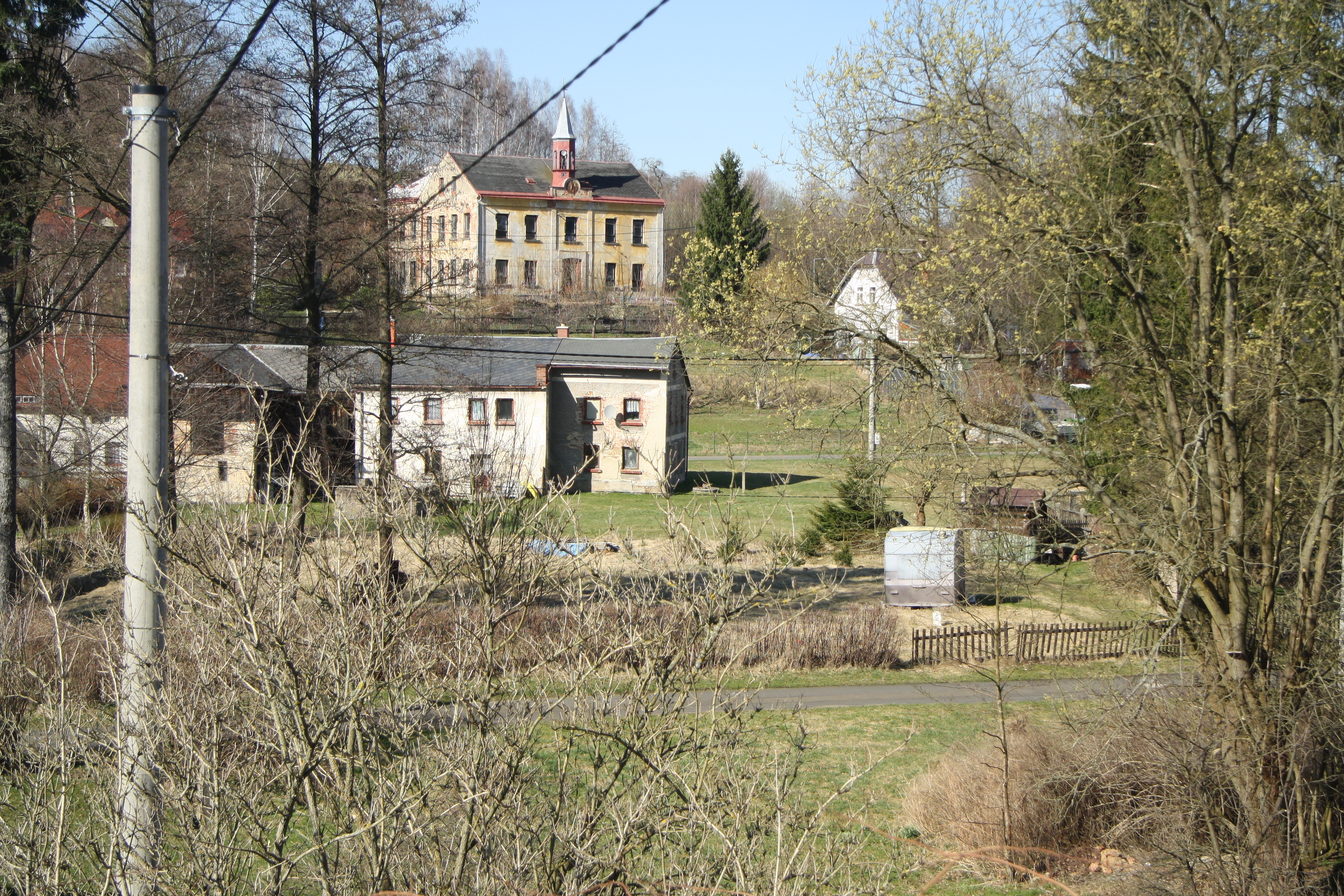 Center of Horní Poustevna, Dolní Poustevna, Děčín District.